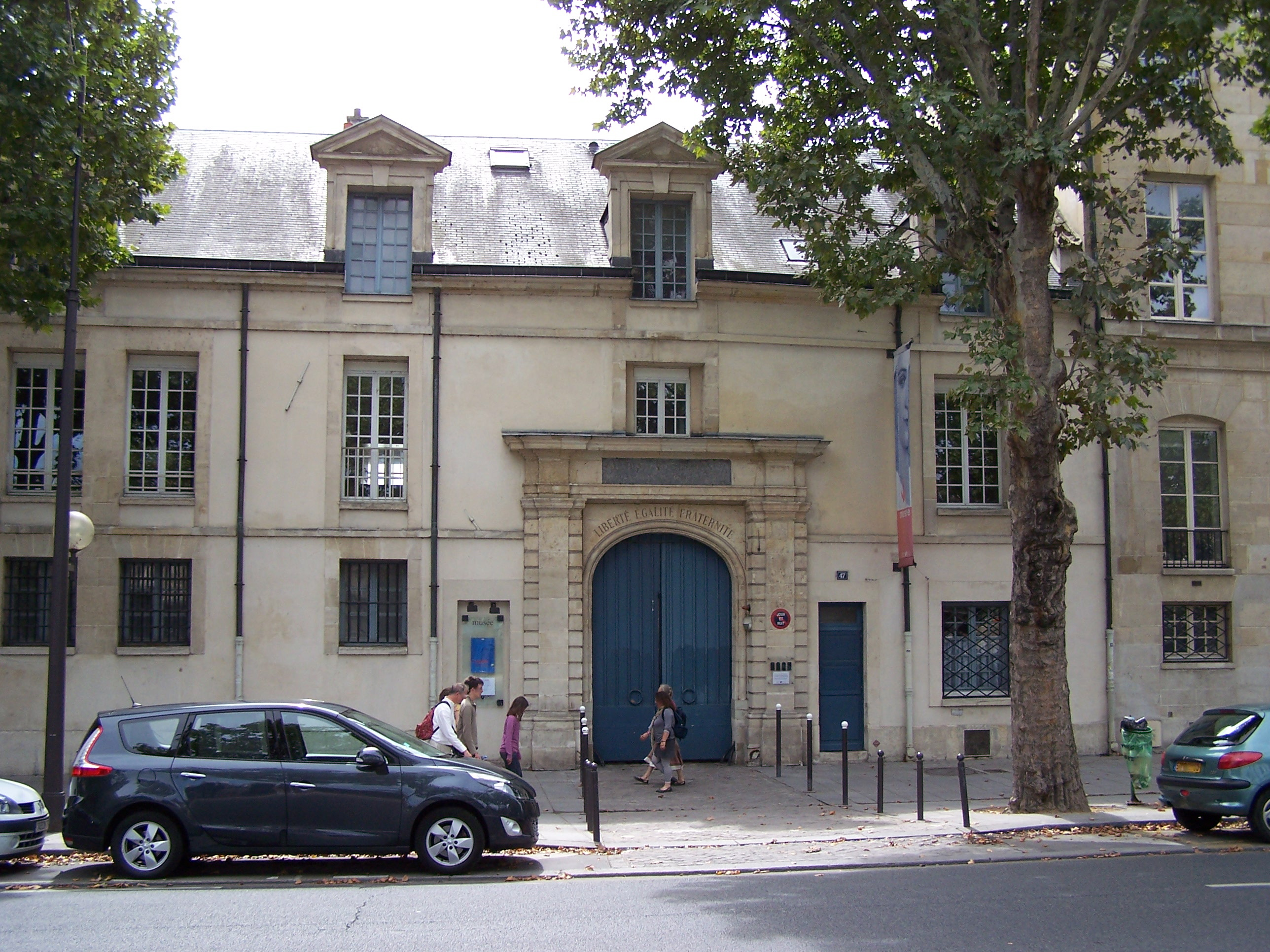 View of the Hôtel de Miramion, actually the museum of the hospitals (Musée de l'Assistance publique), at Quai de la Tournelle in Paris, France.